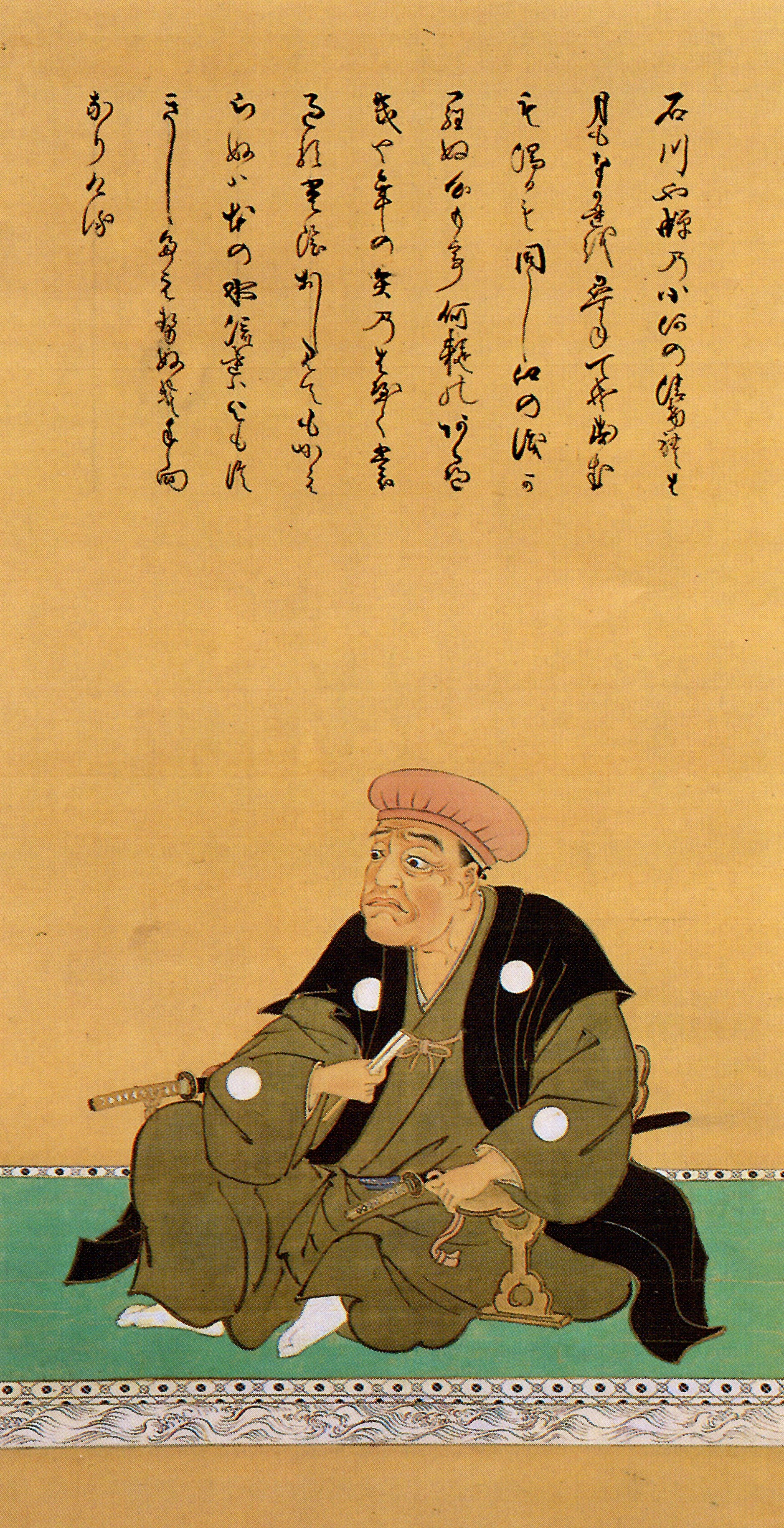 Load ofen:Fukuoka Domain,2nd.name Kuroda Tadayuki.